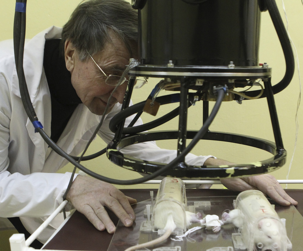 “Russia' first neutron generator for cancer treatment launched in Obninsk”. Anatoly Lychagin, head of the Medical Radiation Physics Laboratory at the Medical Radiology Research Center (MRRC) during the launch of the first compact neutron generator for neutron and neutron-grabbing cancer therapy at the MRRC in Obninsk.